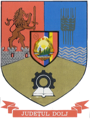 Communist coat of arms of Dolj County, Socialist Republic of Romania.